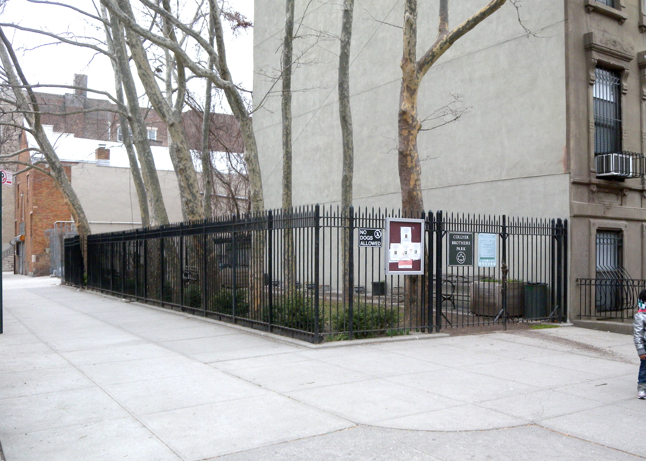 Looking northwest from 5th Avenue at Collyer brothers Park on a cloudy late afternoon.